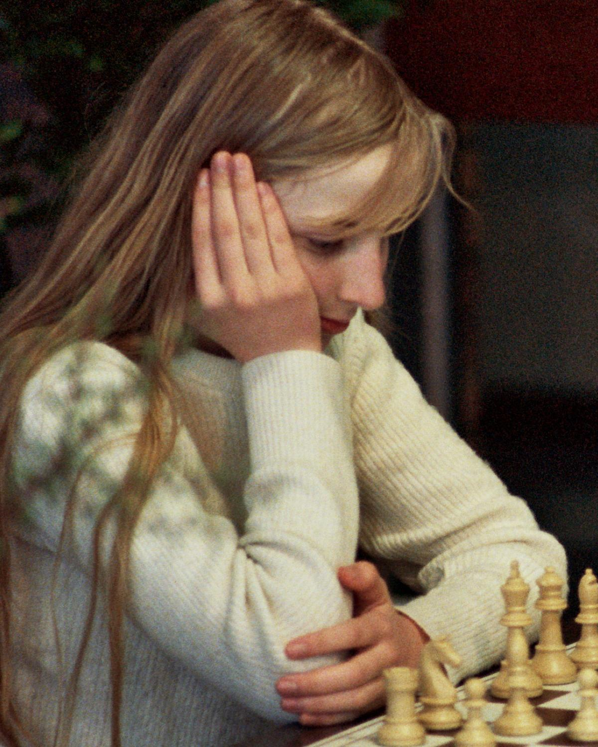 Bettina Trabert, 1982 at the championship for girls from NRW, Photographer Gerhard Hund.